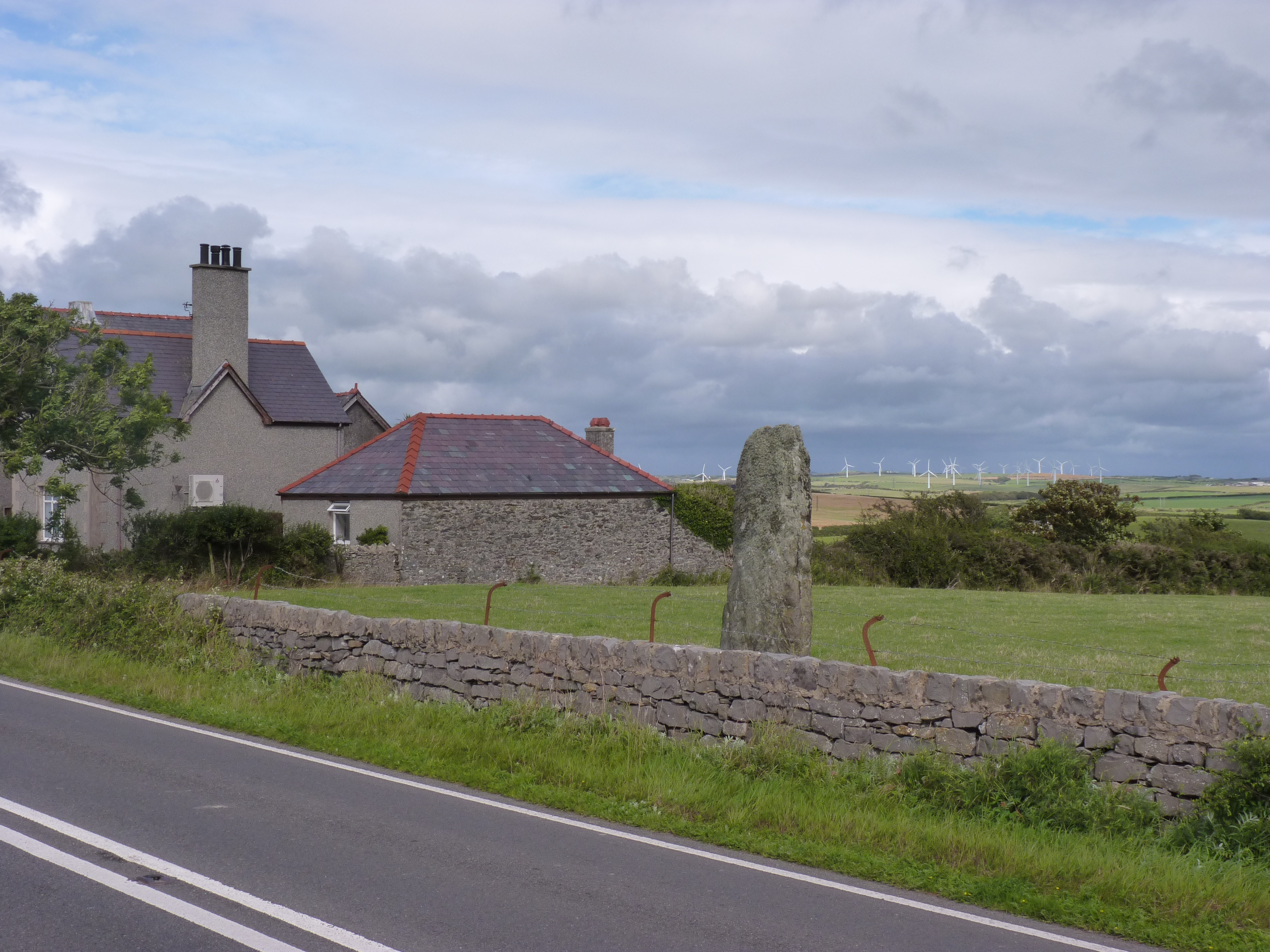 Substantial standing stone beside the road, at Capel Soar, Anglesey